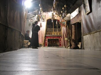 The Church of the Nativity in Bethlehem. The grotto. / Crkva Rođenja Isusova u Betlehemu. Spilja rođenja.